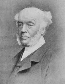 Charles Cooper Henderson (14 June 1803 – 21 August 1877) was a British painter of horses and coaches. Date unknown so say 1877